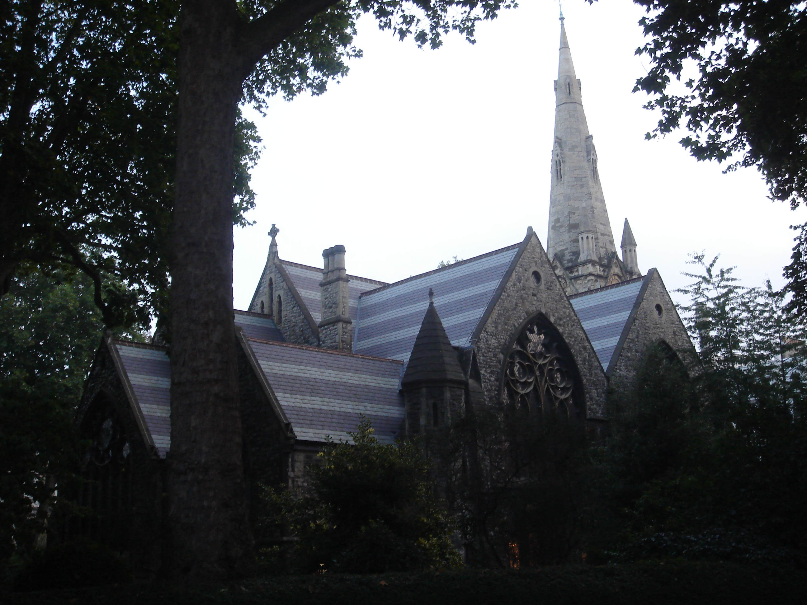 St Jude's Church, Kensington, Collingham Road SW5